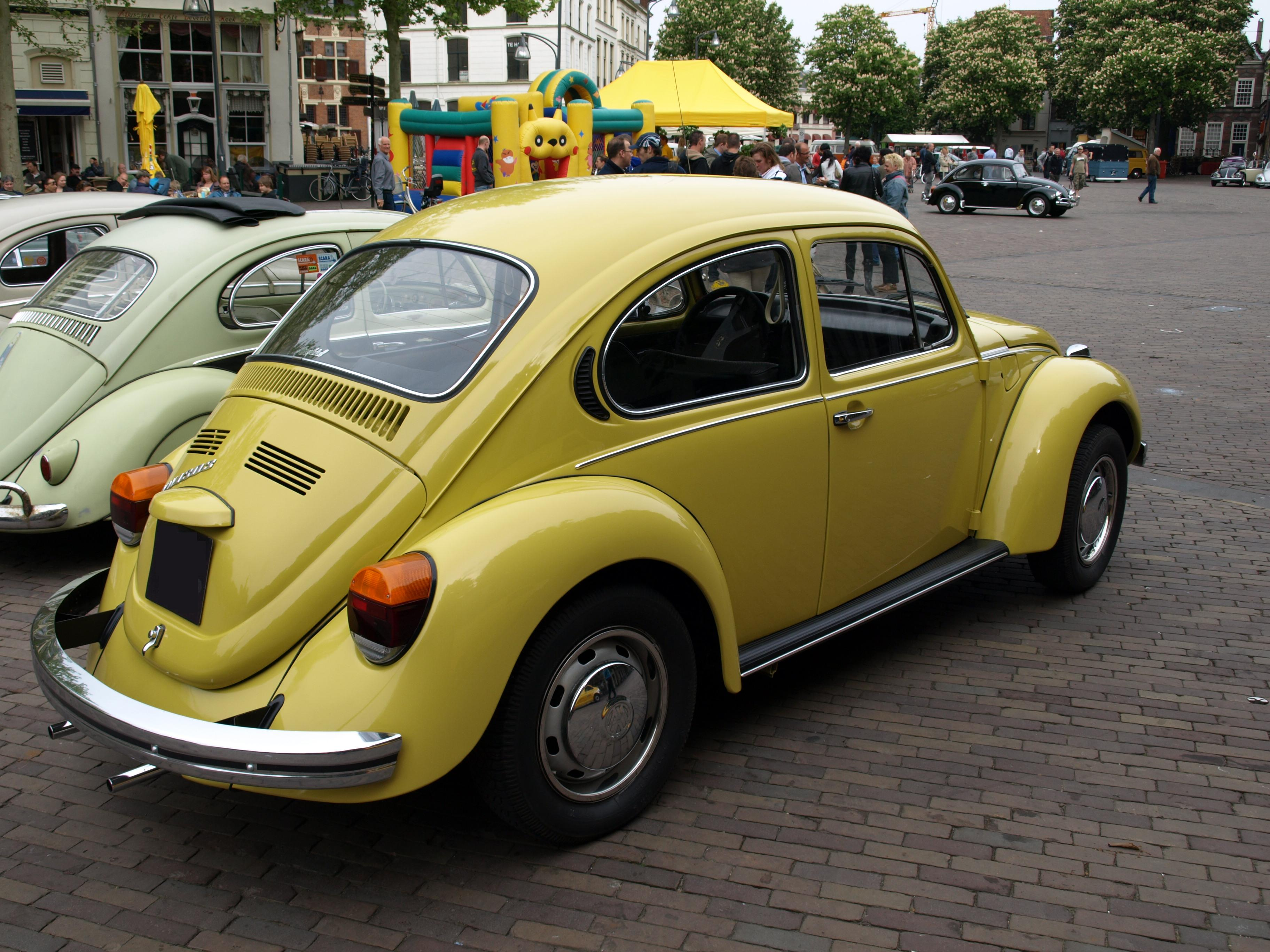 Aircooled Chillout Day 2009 - Deventer 1973 Volkswagen Type 1